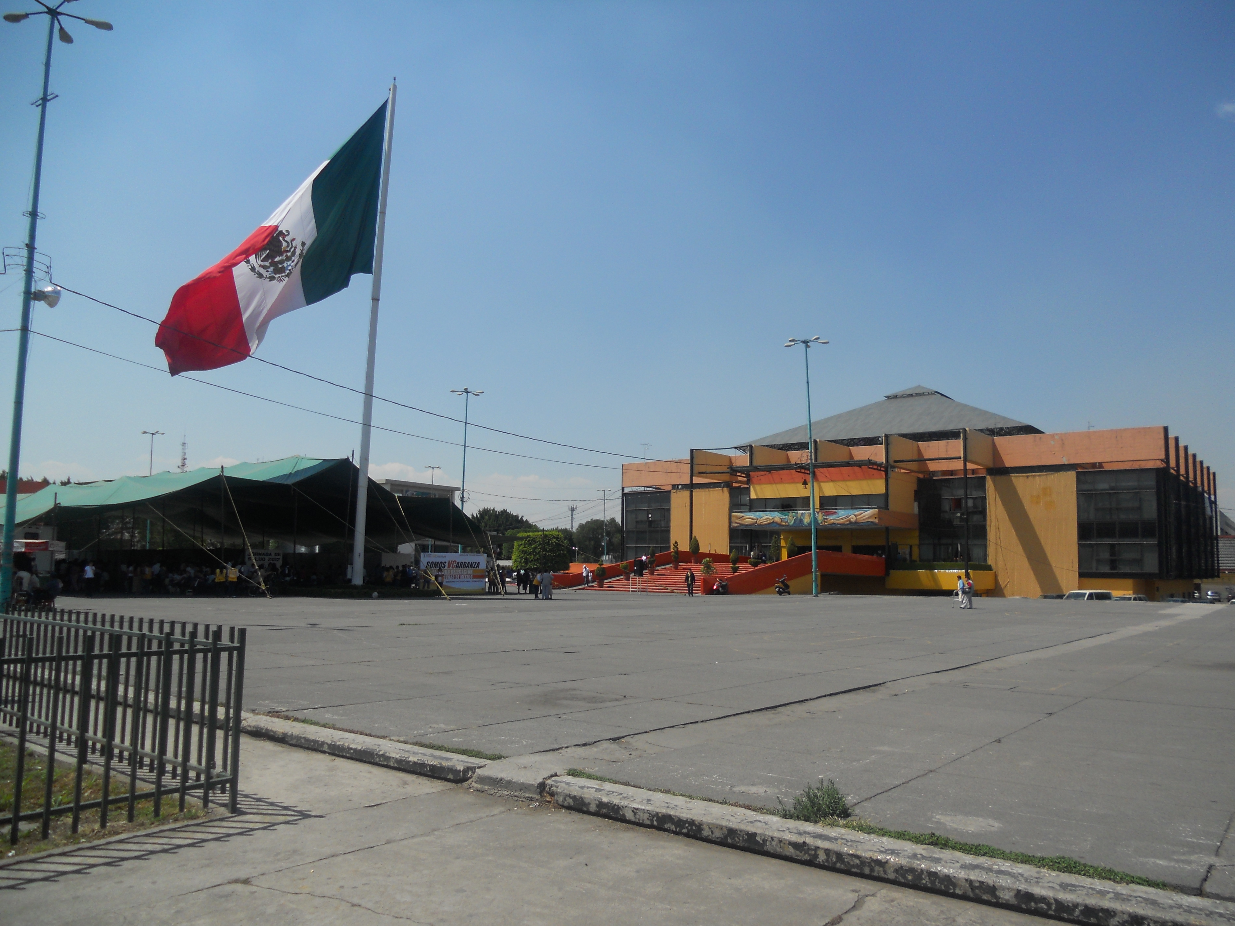 This is the main building of the offices of the Venustiano Carranza Burough in Mexico City